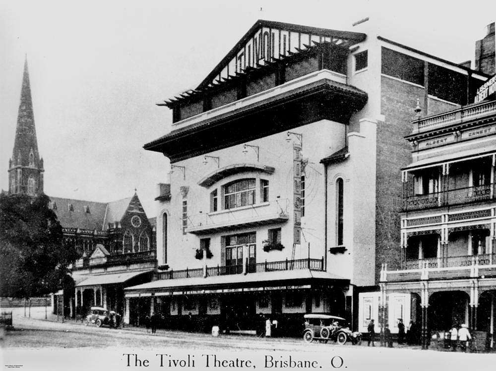 Tivoli Theatre Brisbane, designed by Henry Eli White and built 1915, photographed in 1918